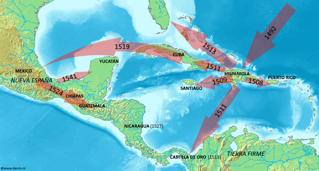 Spanish conquest routes in the Caribbean, Mexico and Central America during the 16th century.